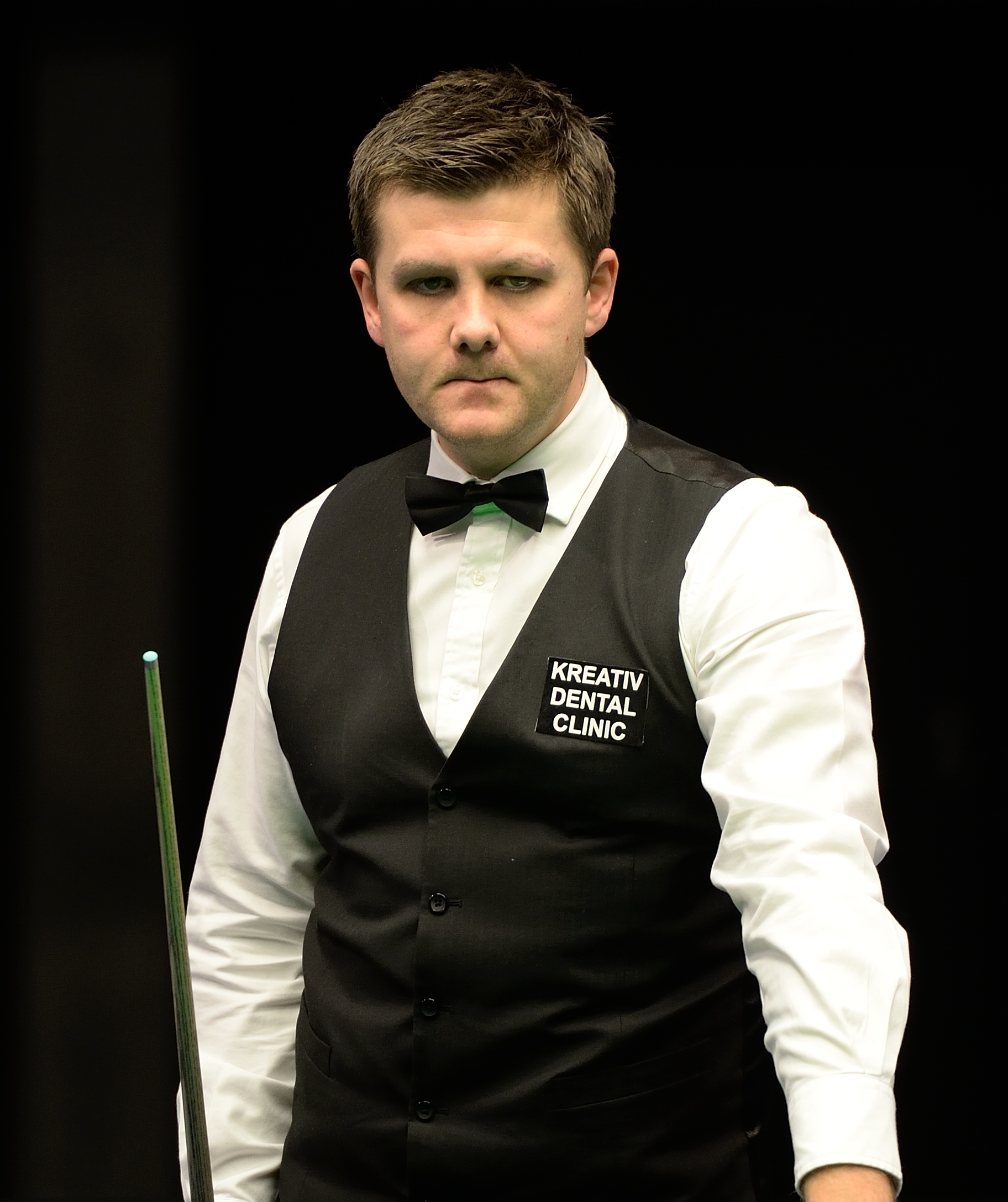 Picture taken in Berlin during the Snooker German Masters in 2015. Ryan Day.